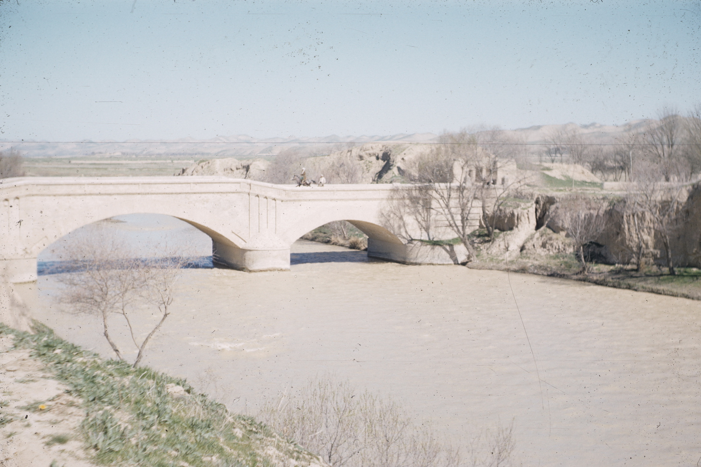 Bala Murghab, the bridge over Murghab river.